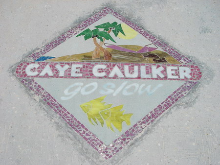 Greeting near the dock in Caye Caulker, Belize